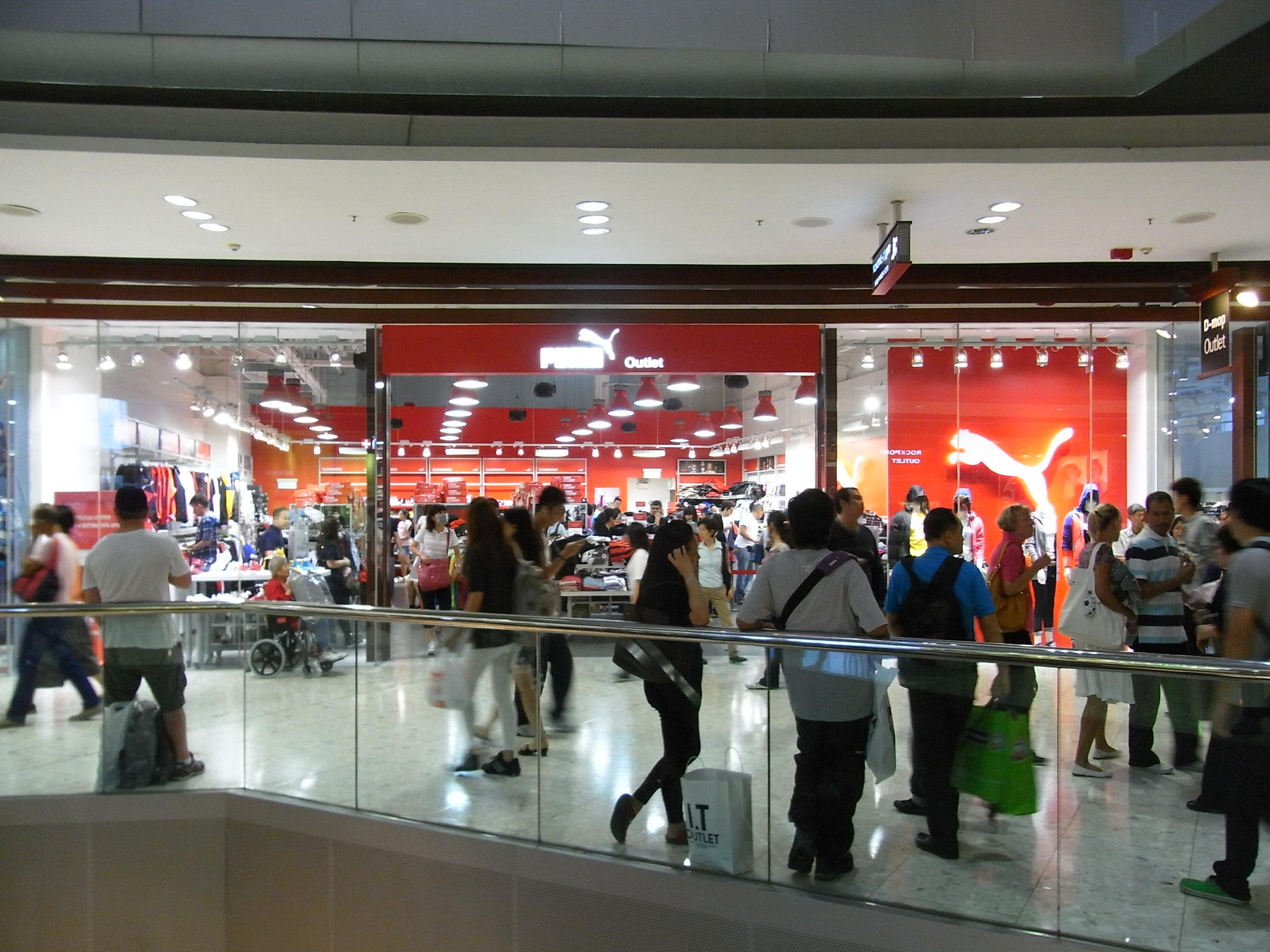 新界大嶼山東涌達東路20號東薈城, CityGate, Tung Chung, Islands District, Hong Kong